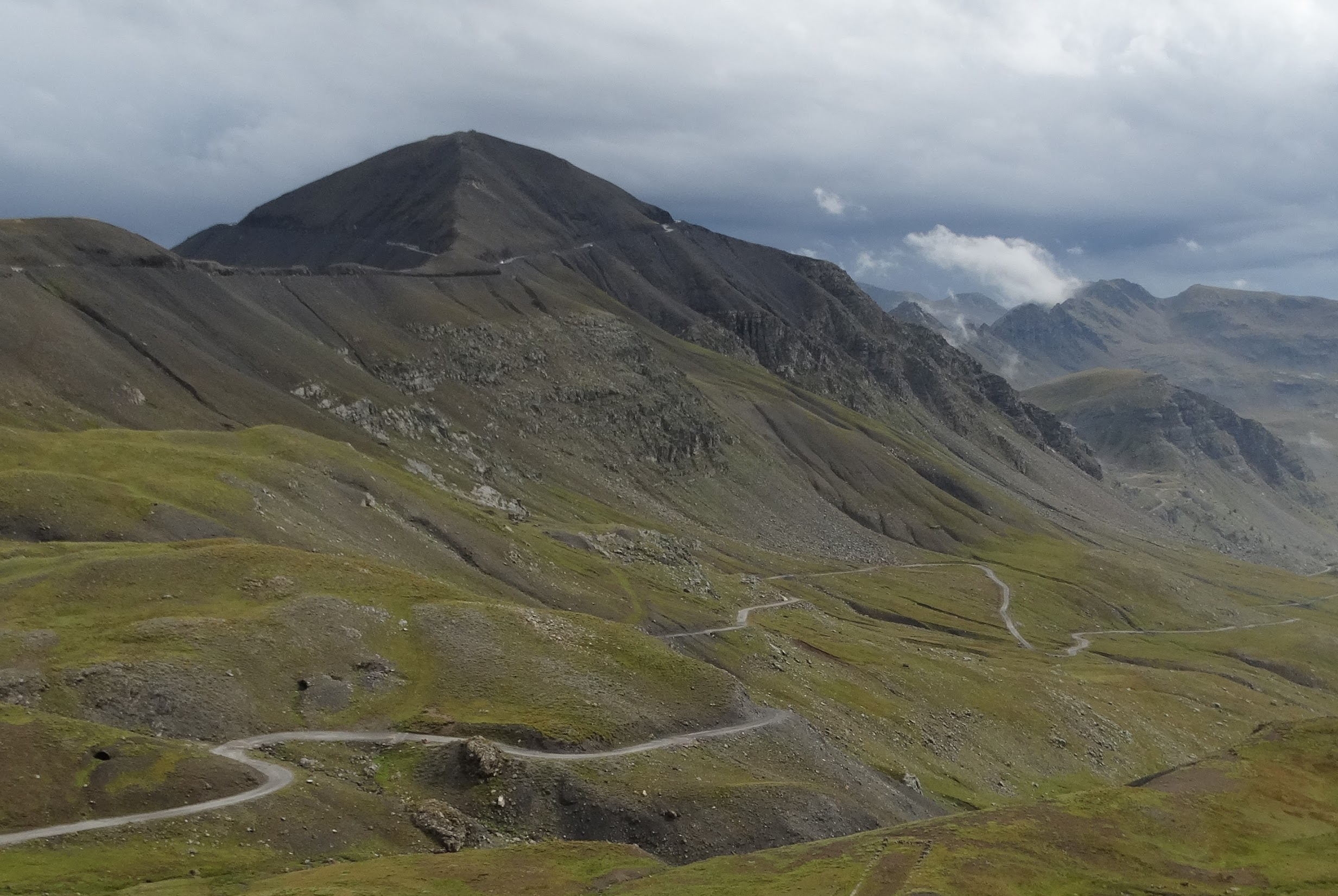 Col de la Bonette